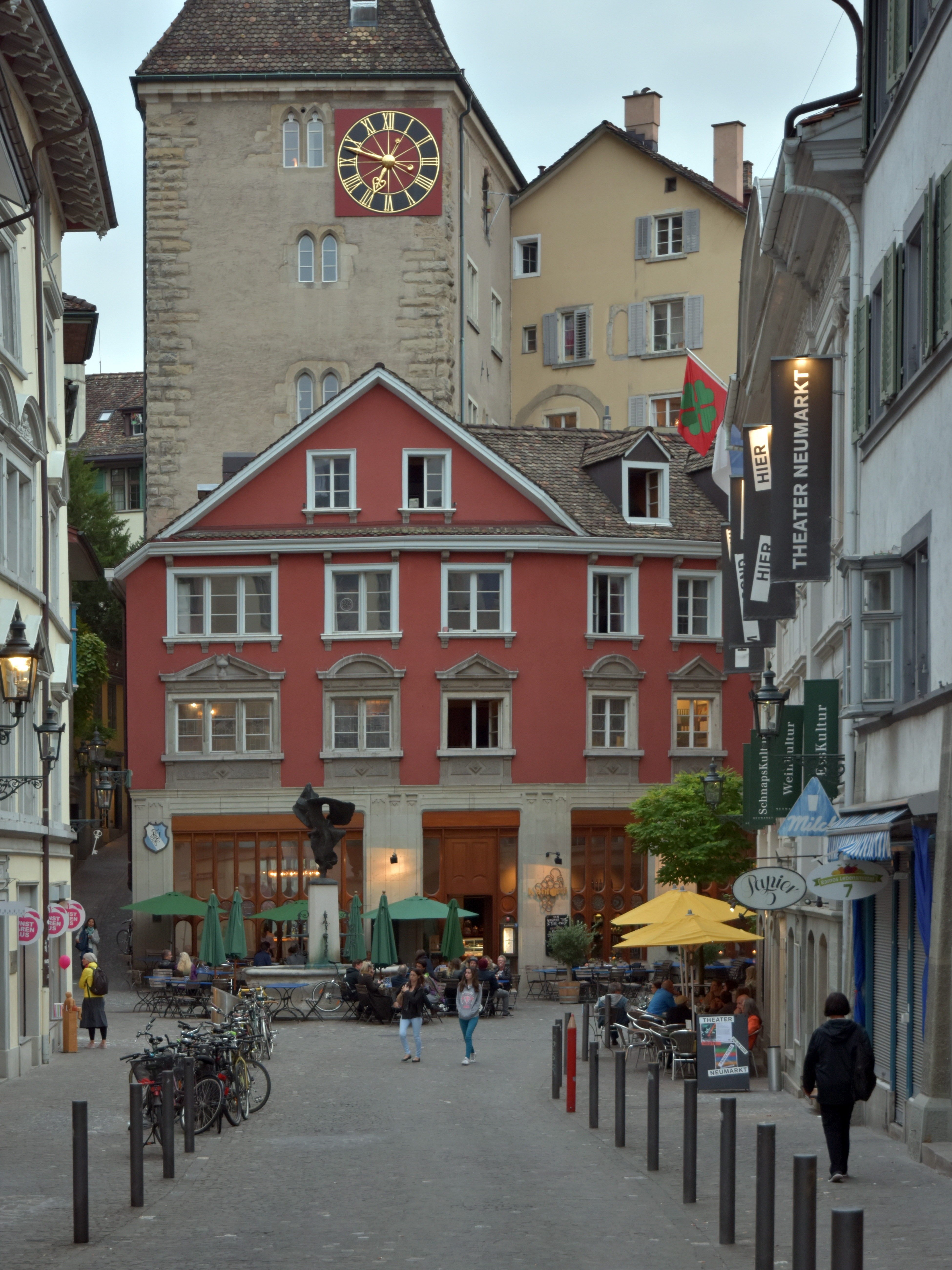 Neumarkt, Zürich, Grimmenturm